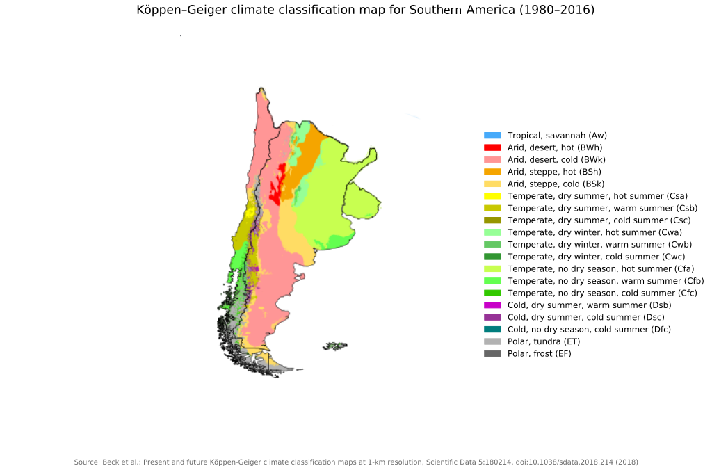 This is a Köppen Climate Zone Classification map of the Southern Cone region of America. Note: This is an edit of the original work "Köppen–Geiger climate classification map for South America" by authors Beck, H.E., Zimmermann, N. E., McVicar, T. R., Vergopolan, N., Berg, A., & Wood, E. F. All rights to the original go to the authors.